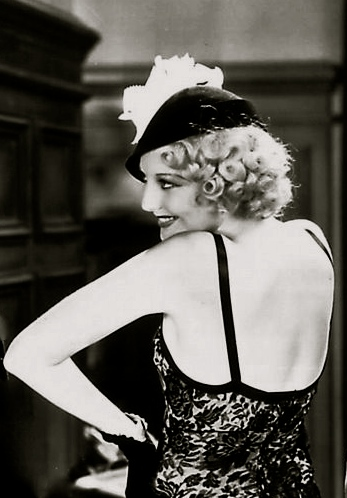 Thelma Todd from the film Speak Easily (1932). Shows Todd in a Eugenie Hat